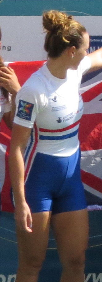 Podium 2015 Coxless 4 GBR : Rebecca Chin, Karen Bennett, GOODERHAM, Lucinda and NORTON, Holly